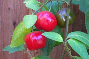 Rocoto pepper. Image from [1]. Image taken by JoeCarrasco, who told me by e-mail that he agrees to license it under the GFDL. Lupo 19:50, 24 Feb 2005 (UTC)